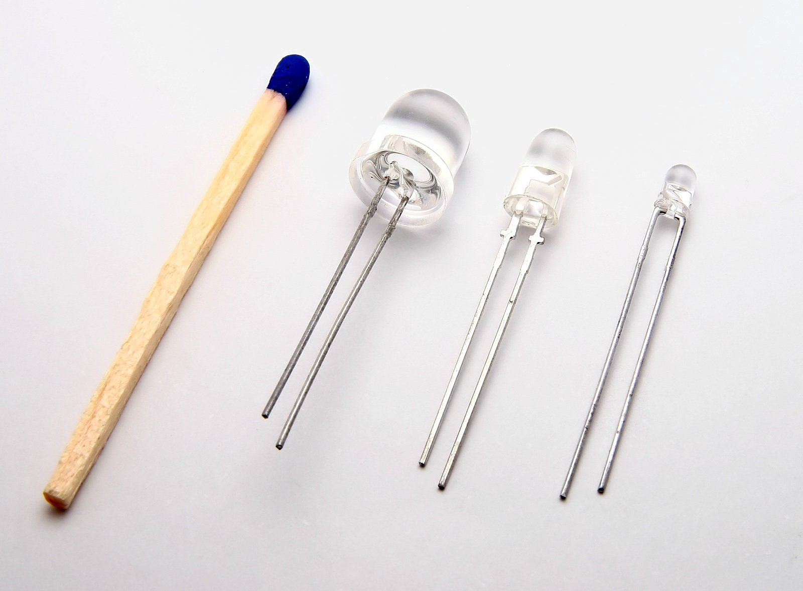 Different sized LEDs. 8mm, 5mm and 3mm.